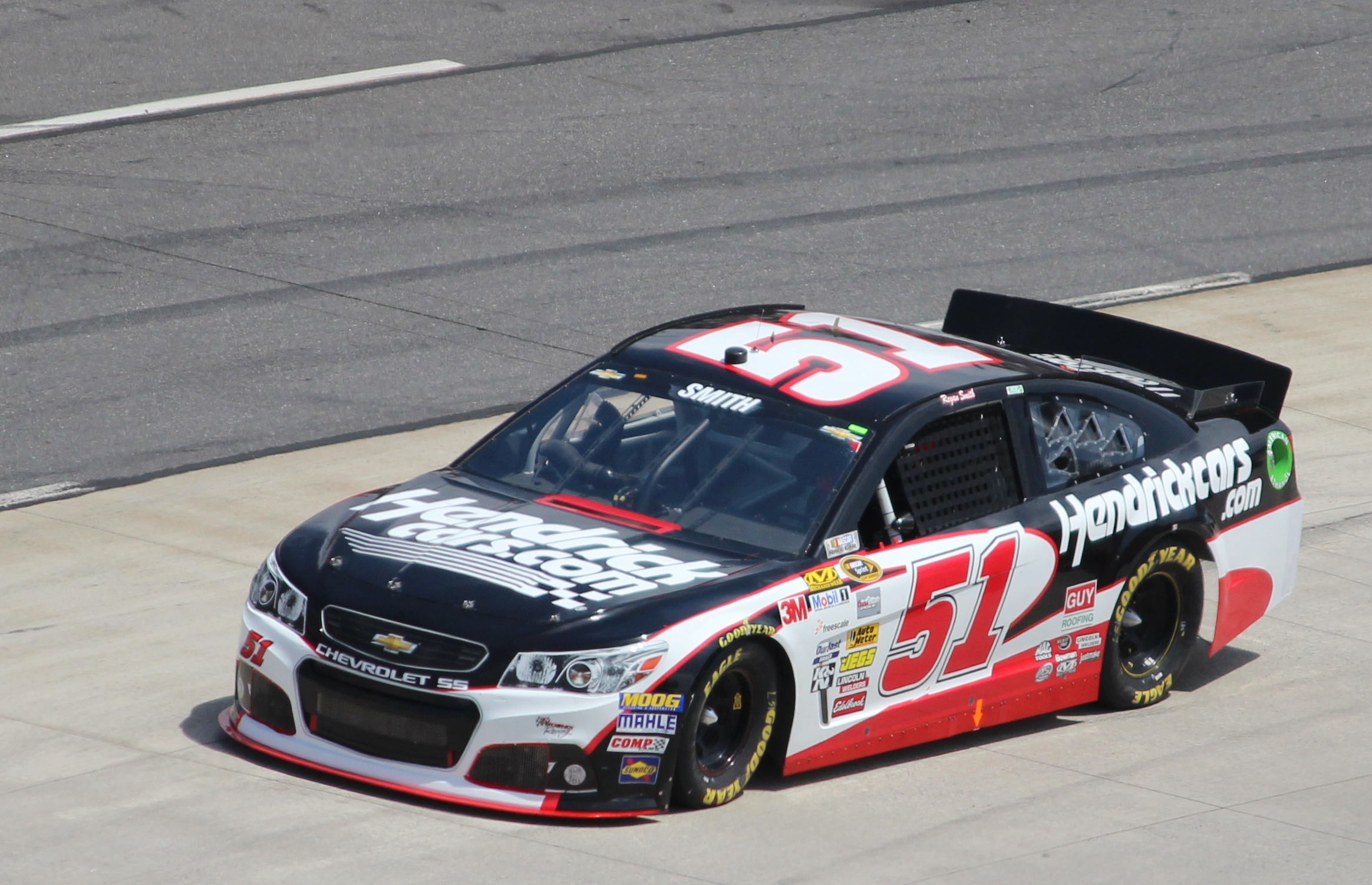 Regan Smith during the 2013 STP Gas Booster 500 at Martinsville Speedway on April 7, 2013.